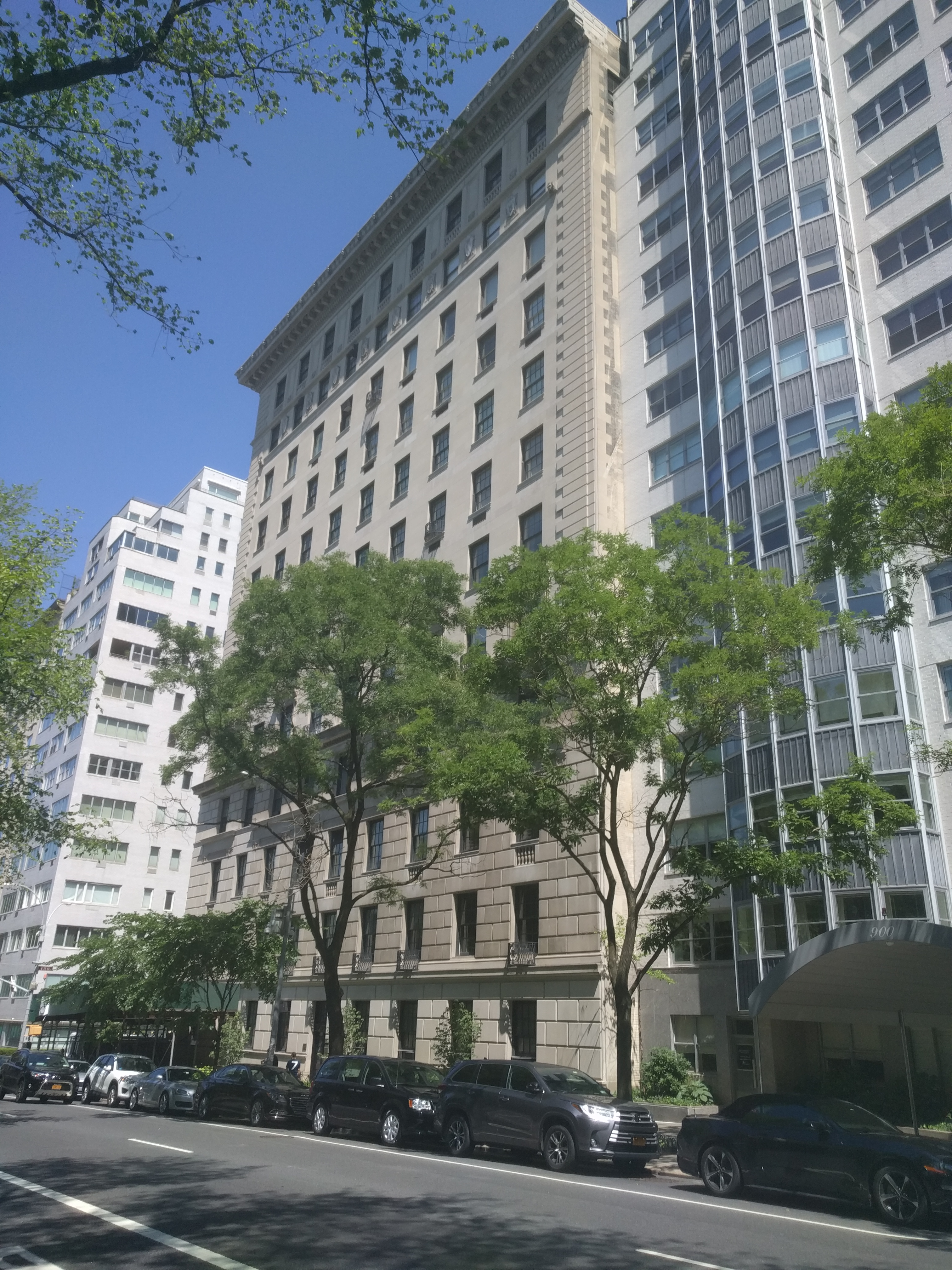 907 Fifth Avenue designed by J. E. R. Carpenter